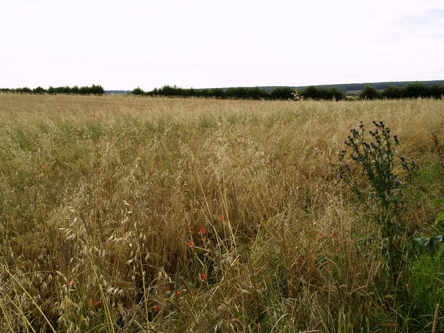 Fallow Field Taken from the very minor track/road to Rowgate